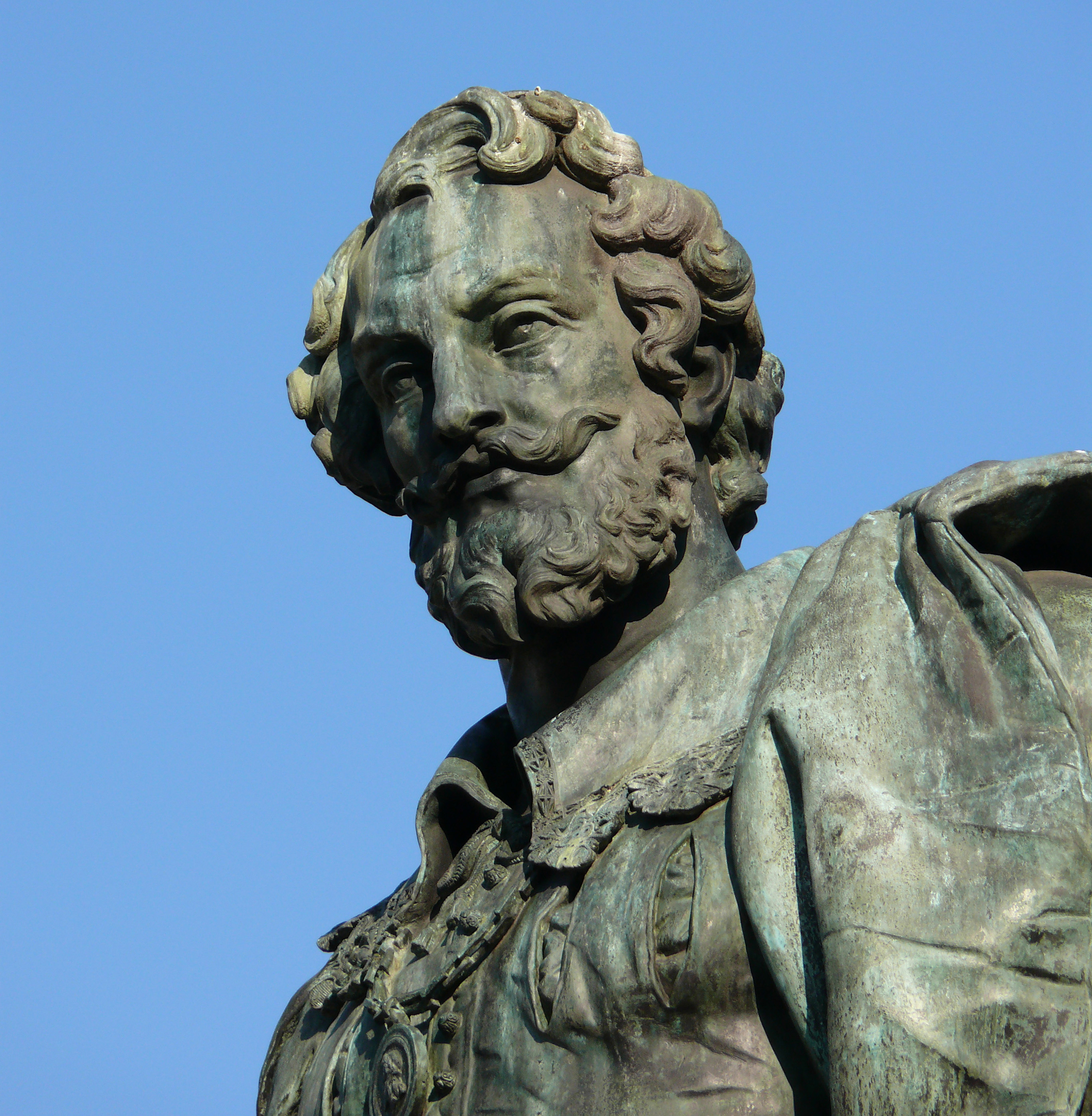 Statue of Peter Paul Rubens on the Groenplaats in Antwerp. The statue was designed by Willem (Guillaume) Geefs (1805-1883). Geefs received his training at the Royal Academy of Fine Arts in Antwerp (1821-1829). In 1833 he became a teacher at the Academy, a year later at the Academy of Brussels.